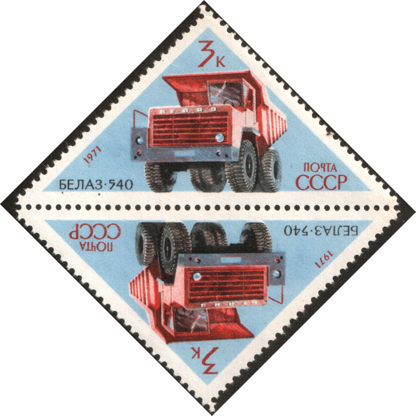 USSR stampː BelAZ-540 Tipper Truck. Seriesː Soviet Motor Vehicles